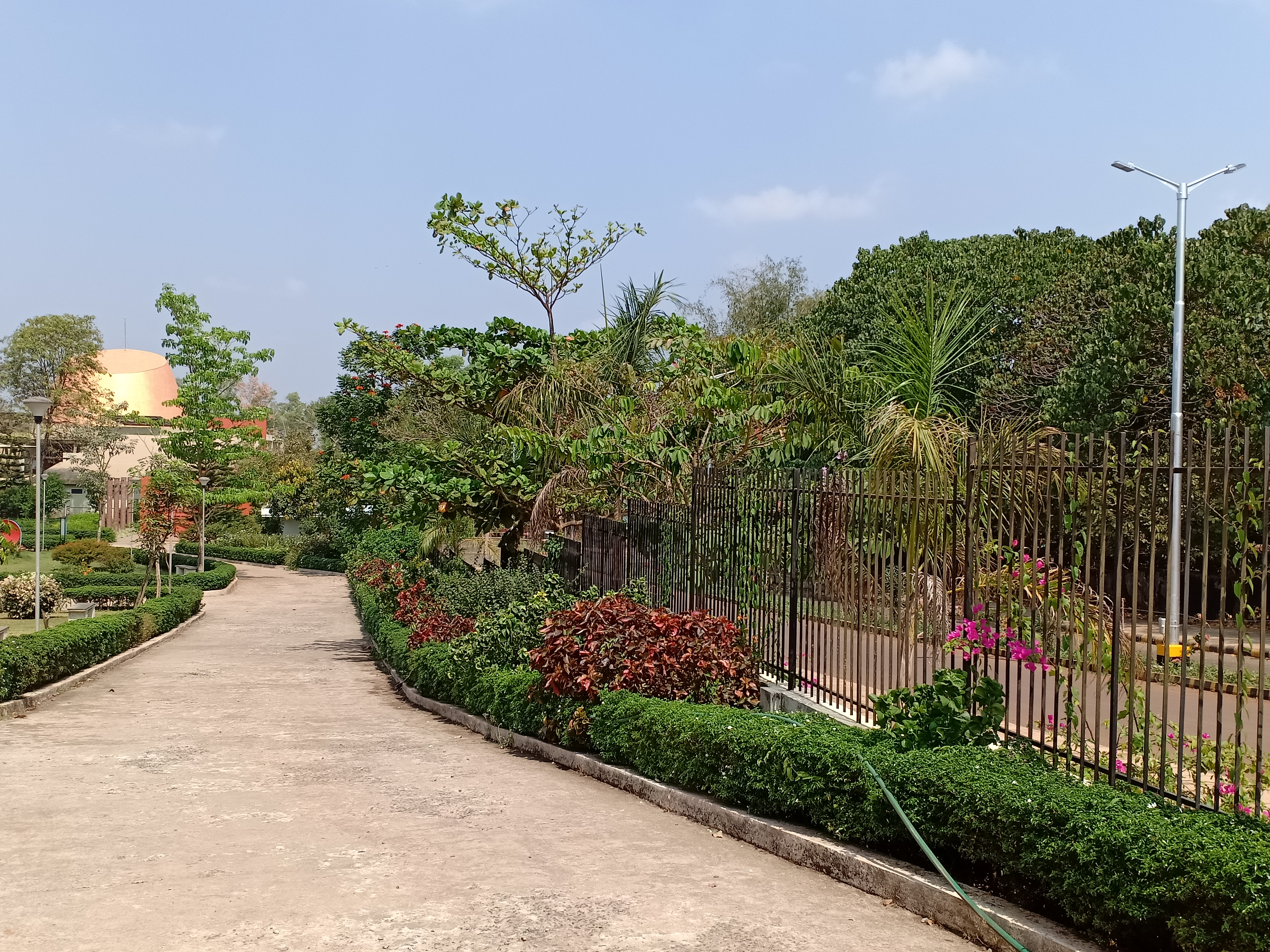 Dome of the Planetarium behind the Pilikula Regional Science Centre in Mangalore - 2